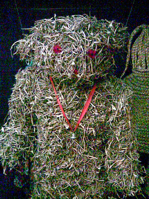 Shrovetide bear. Part of the Polish folklore. Exhibit of the Ethnographic Museum in Warsaw.